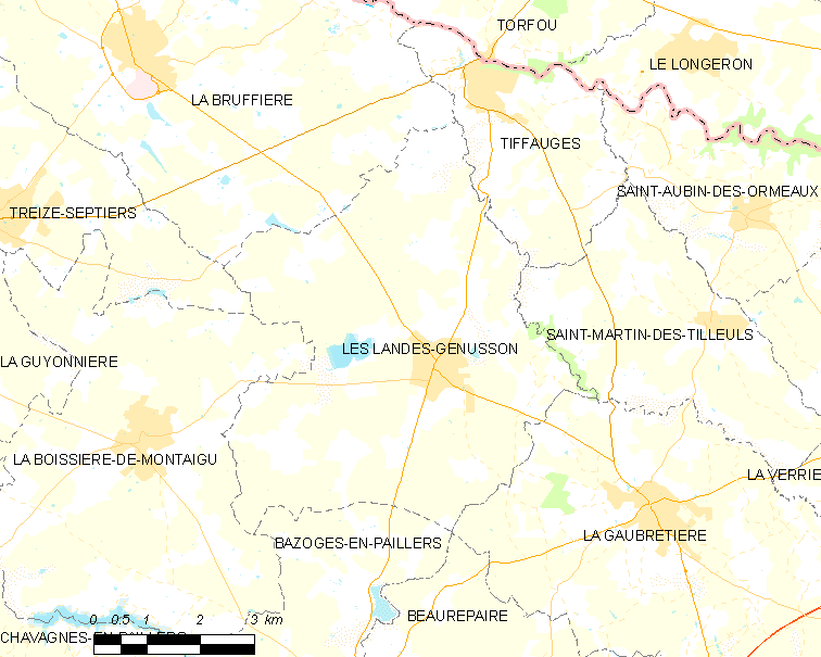 Map of French municipality Les Landes-Genusson